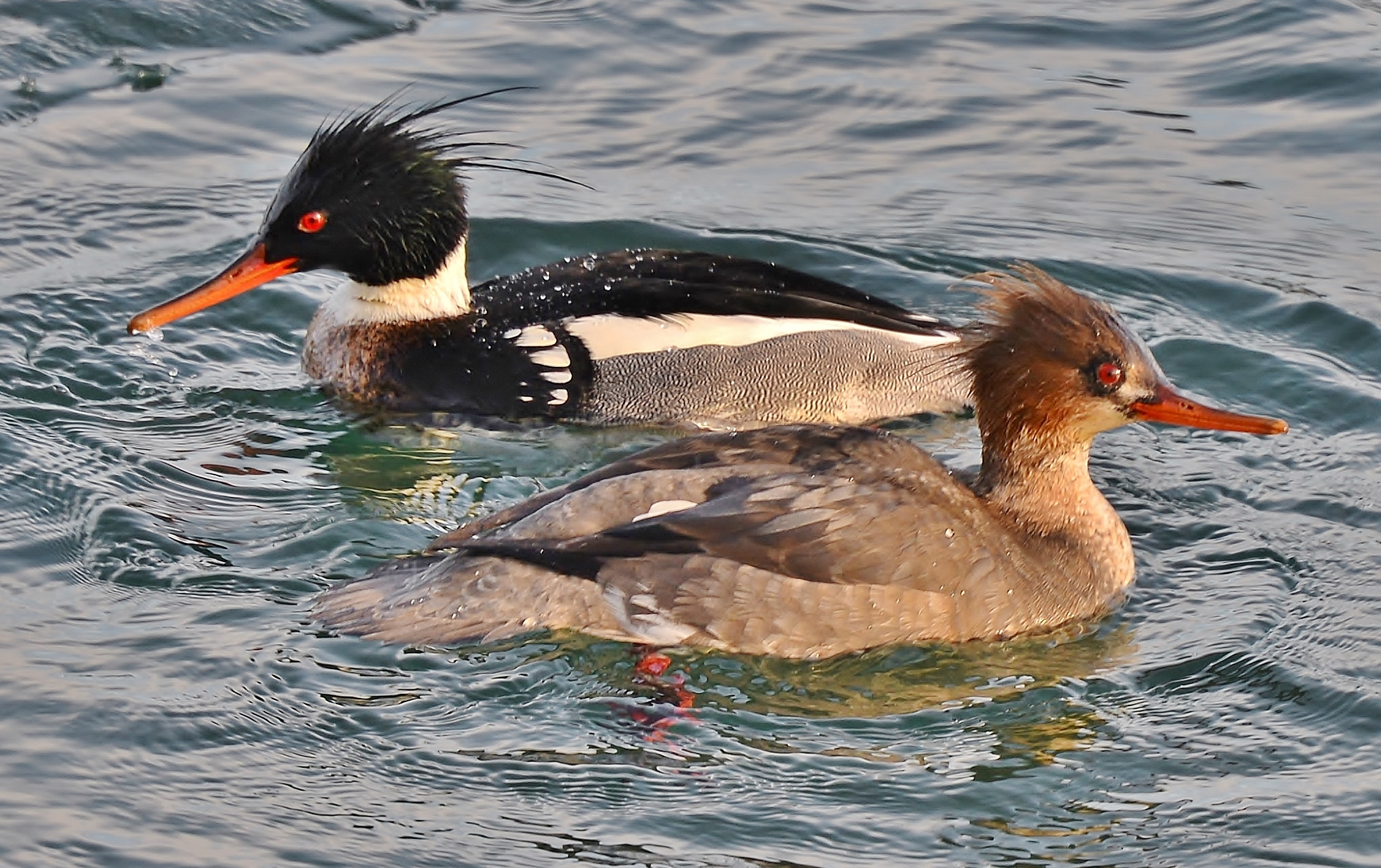 Male and female red-breasted merganser (Mergus serrator) on the Lake Ontario, Toronto